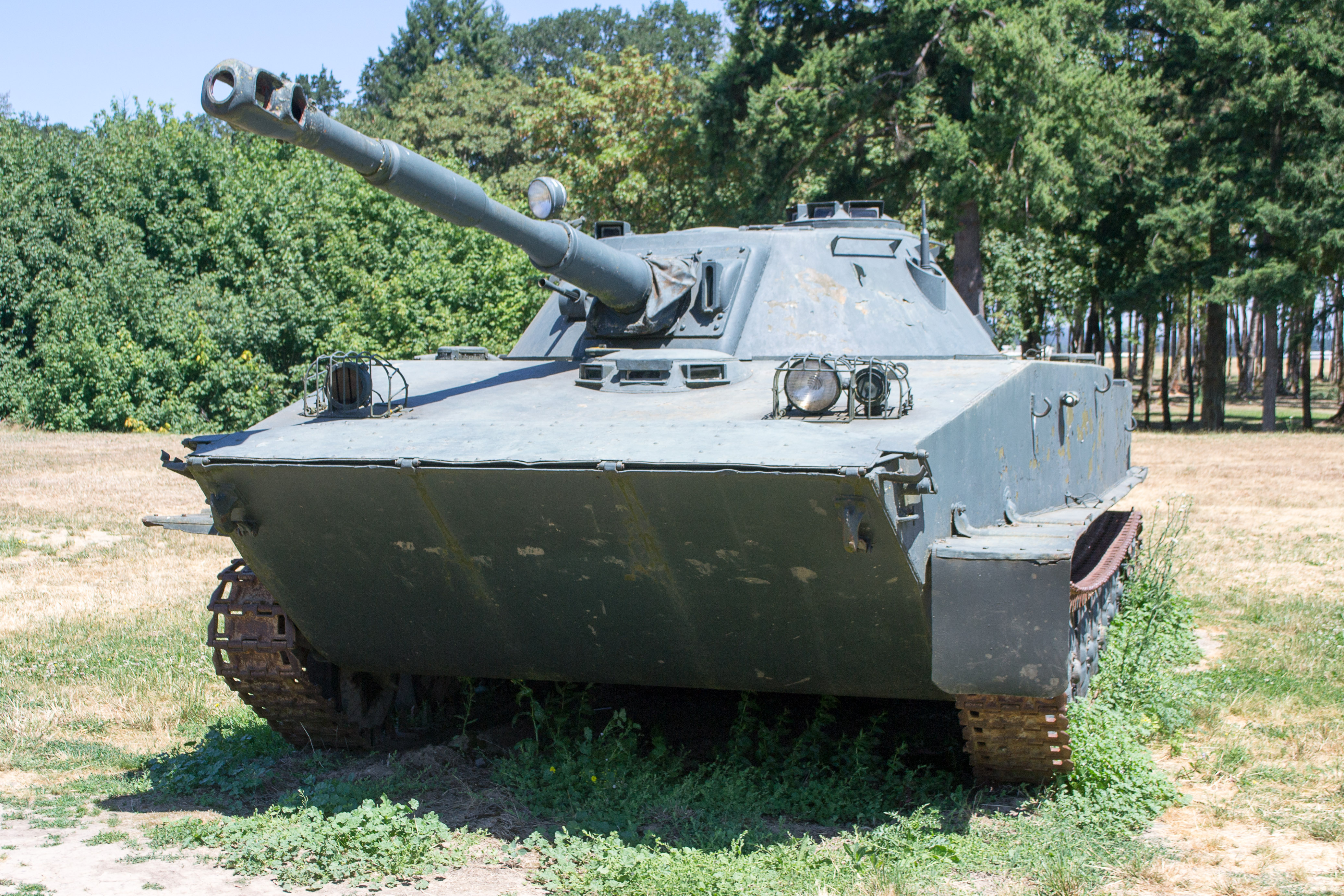 A PT-76 amphibious tank at the Evergreen Aviation and Space Museum